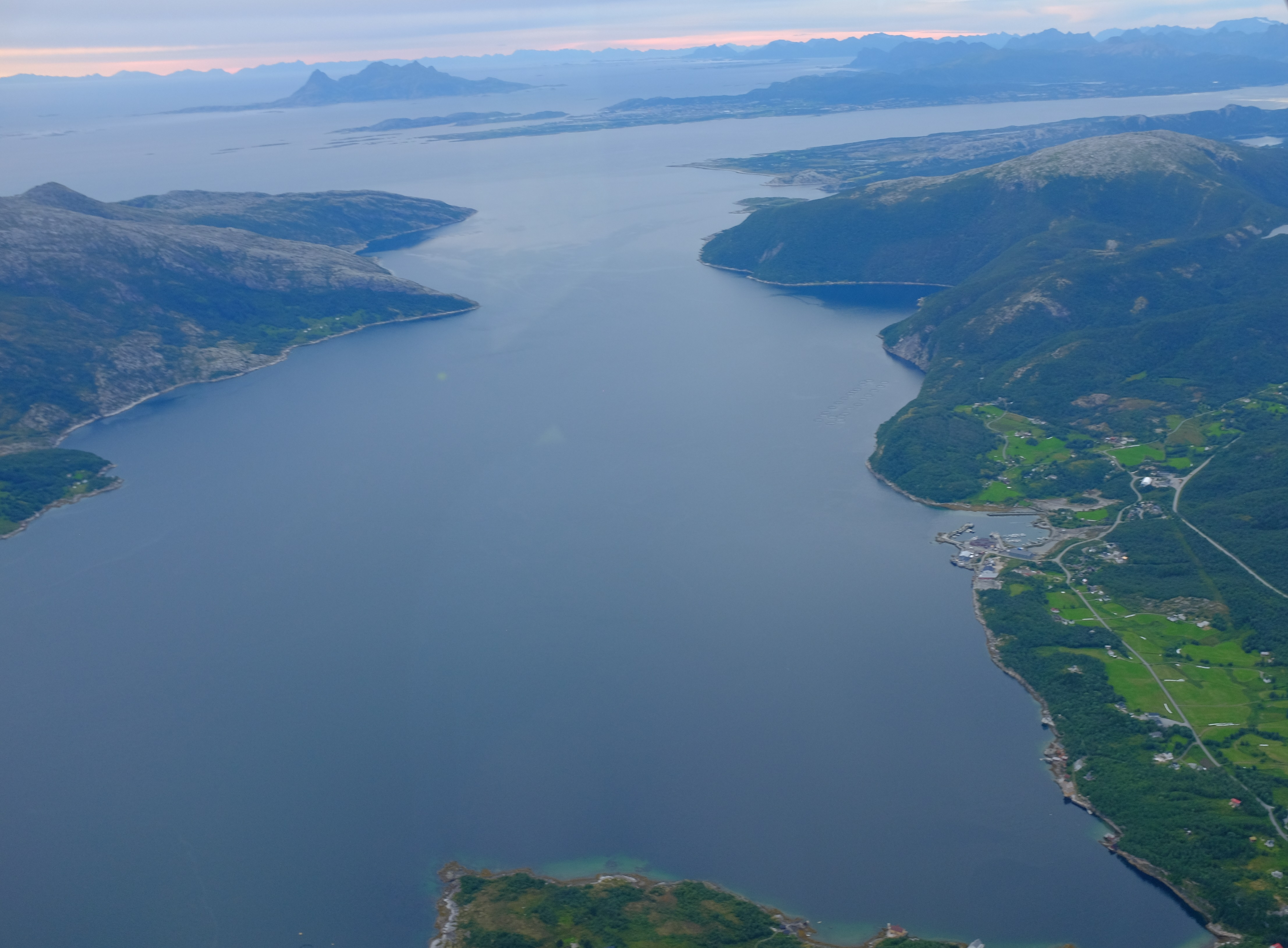 Beiarkjeften is a fjord on the south side of Saltfjorden in Gildeskål Bodø municipalities in Nordland. The fjord stretches 5.5 kilometers southwards between Sandhornøya east, Straumsøya to Nordfjorden which runs further south on the eastern side of the island.